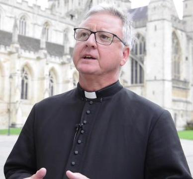 Stephen Lake, Dean of Gloucester Cathedral